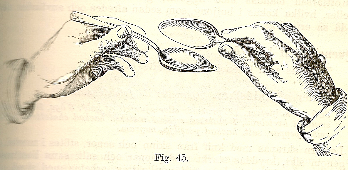 A picture showing how to form a quenelle